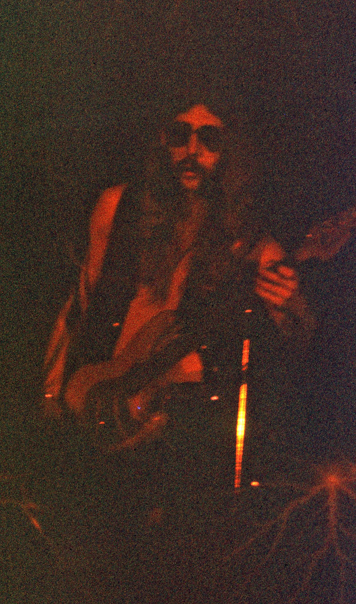 Berry Oakley, bassist of the Allman Brothers Band performing live in Manley Field House in Syracuse University April 7, 1972